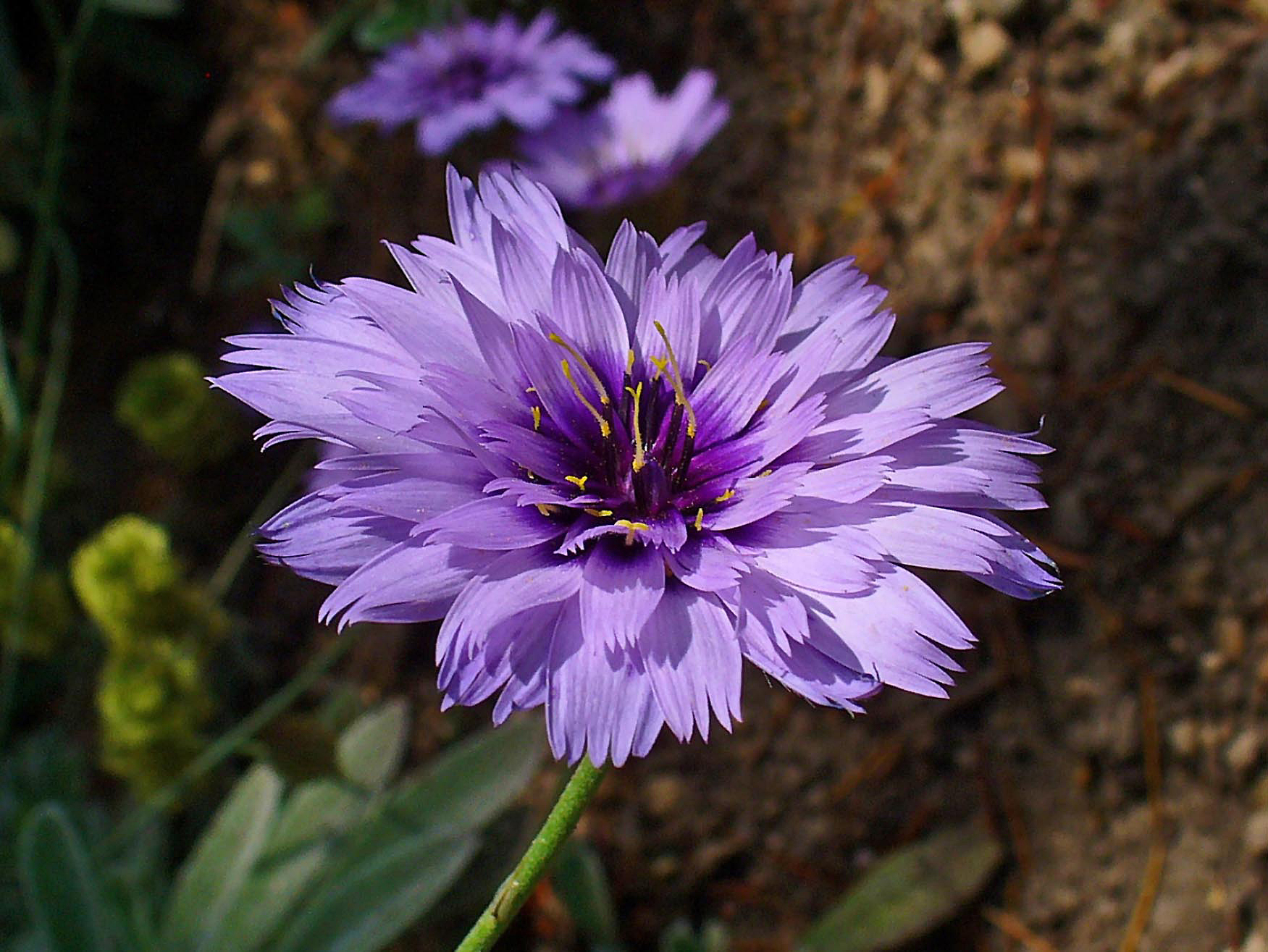 Catananche caerulea, Asteraceae, Cupid's Dart, Blue Cupidone, Cerverina, inflorescence; Botanical Garden KIT, Karlsruhe, Germany.